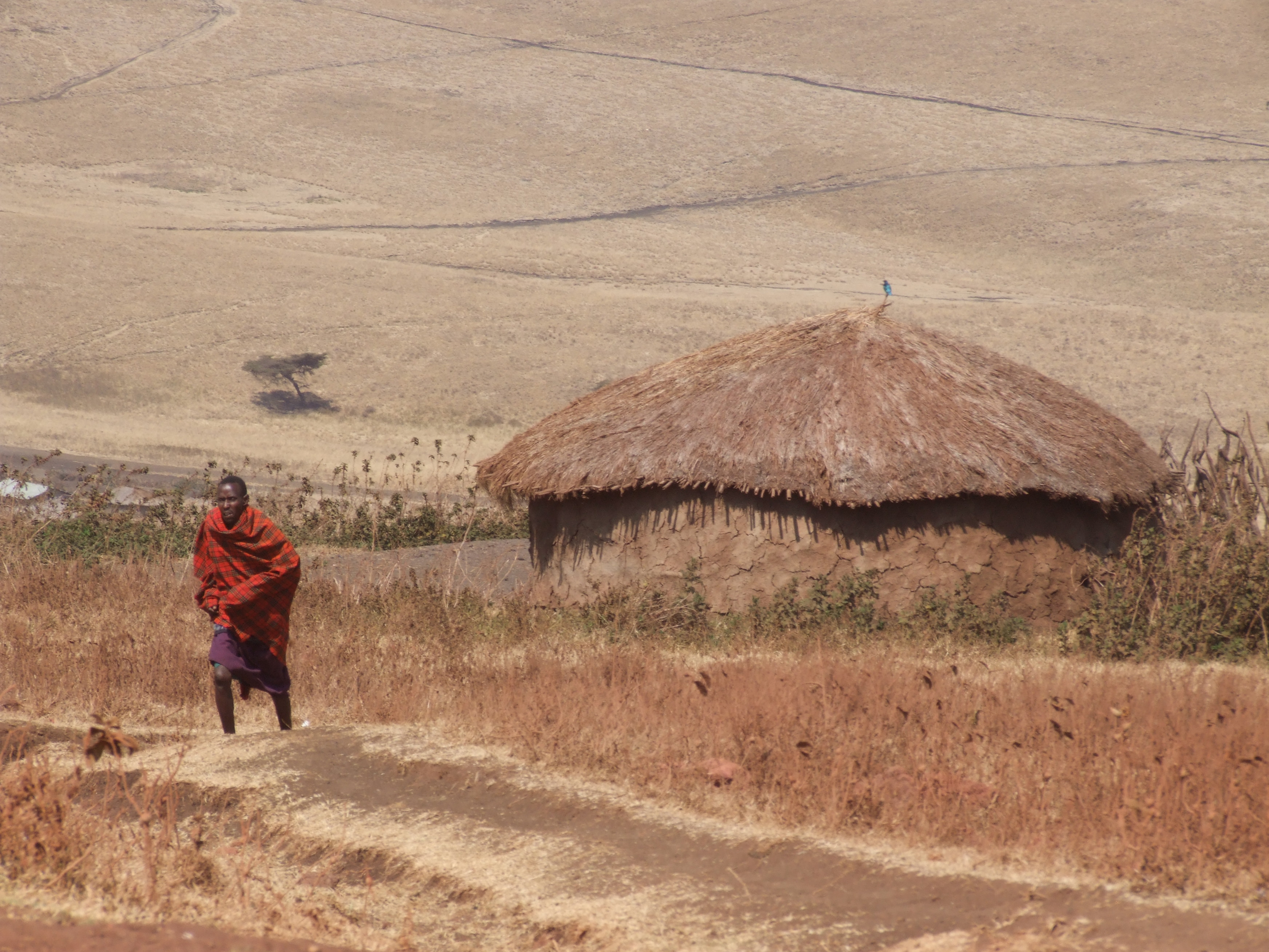 Maasai village